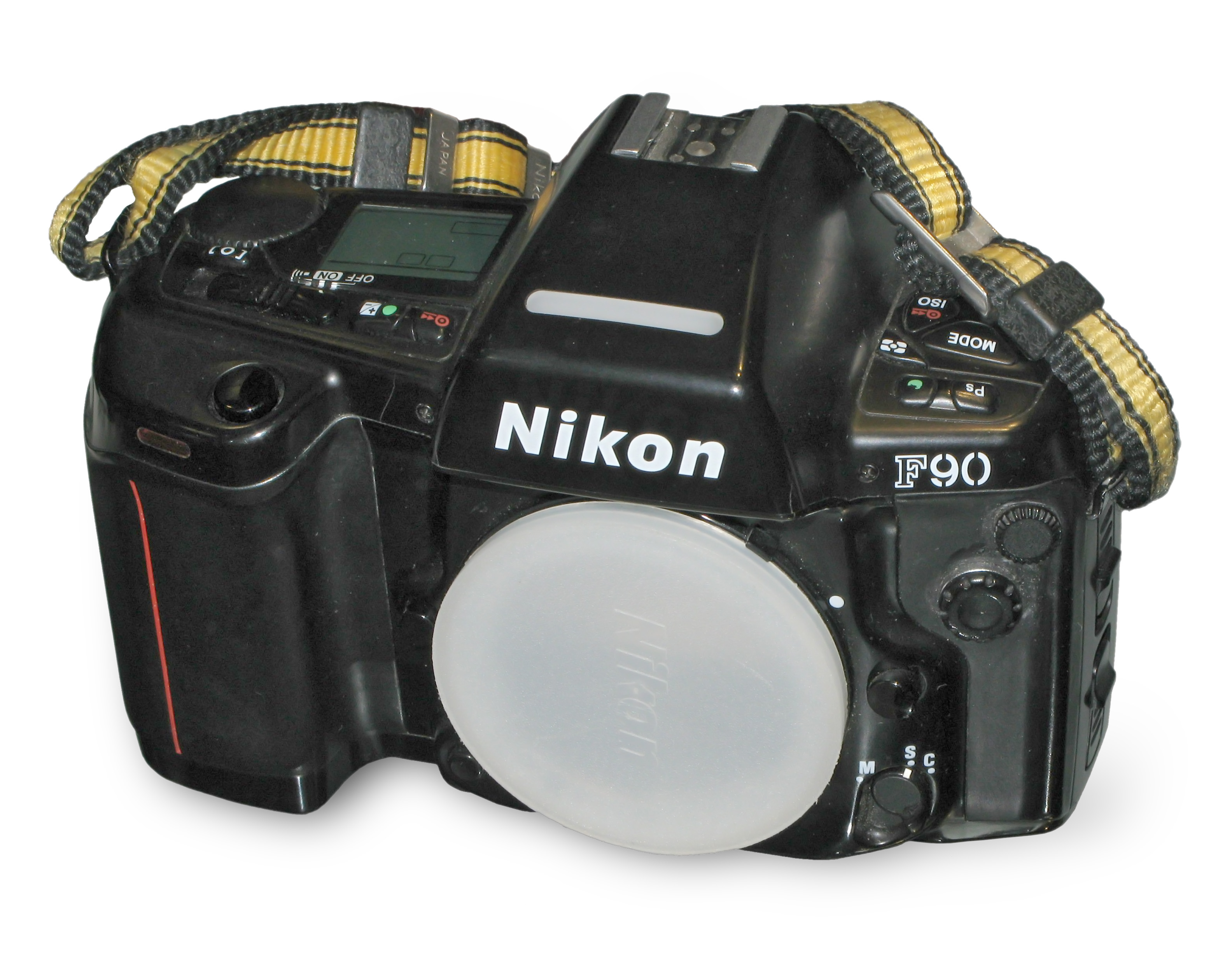 Nikon F90